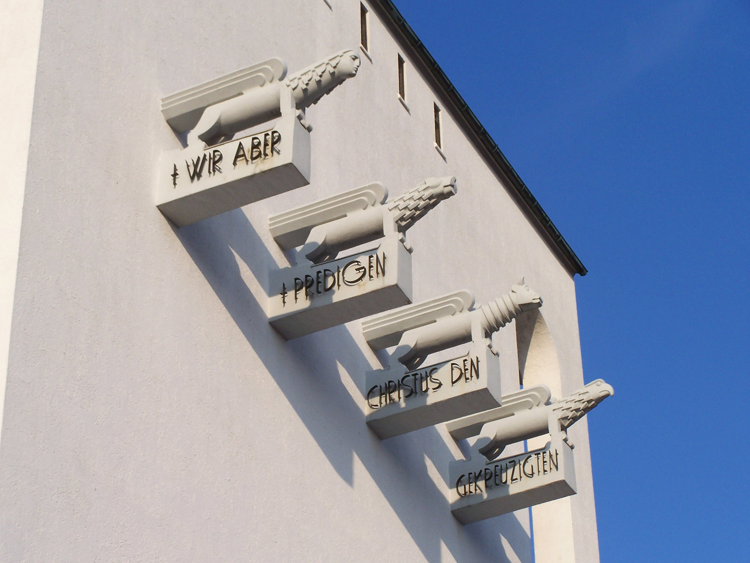 four figures by Arnold Hensler at the tower of Holy Cross Church in Frankfurt am Main-Bornheim symbolising the four evangelists, seen from south-west